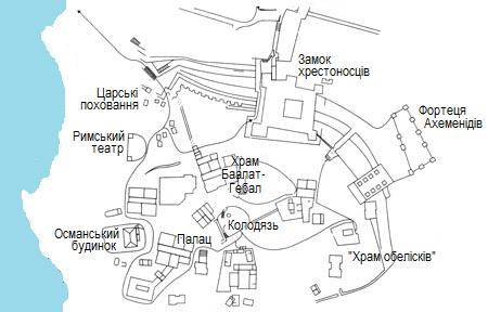 Map of Byblos Archeological Park (ukrainian)